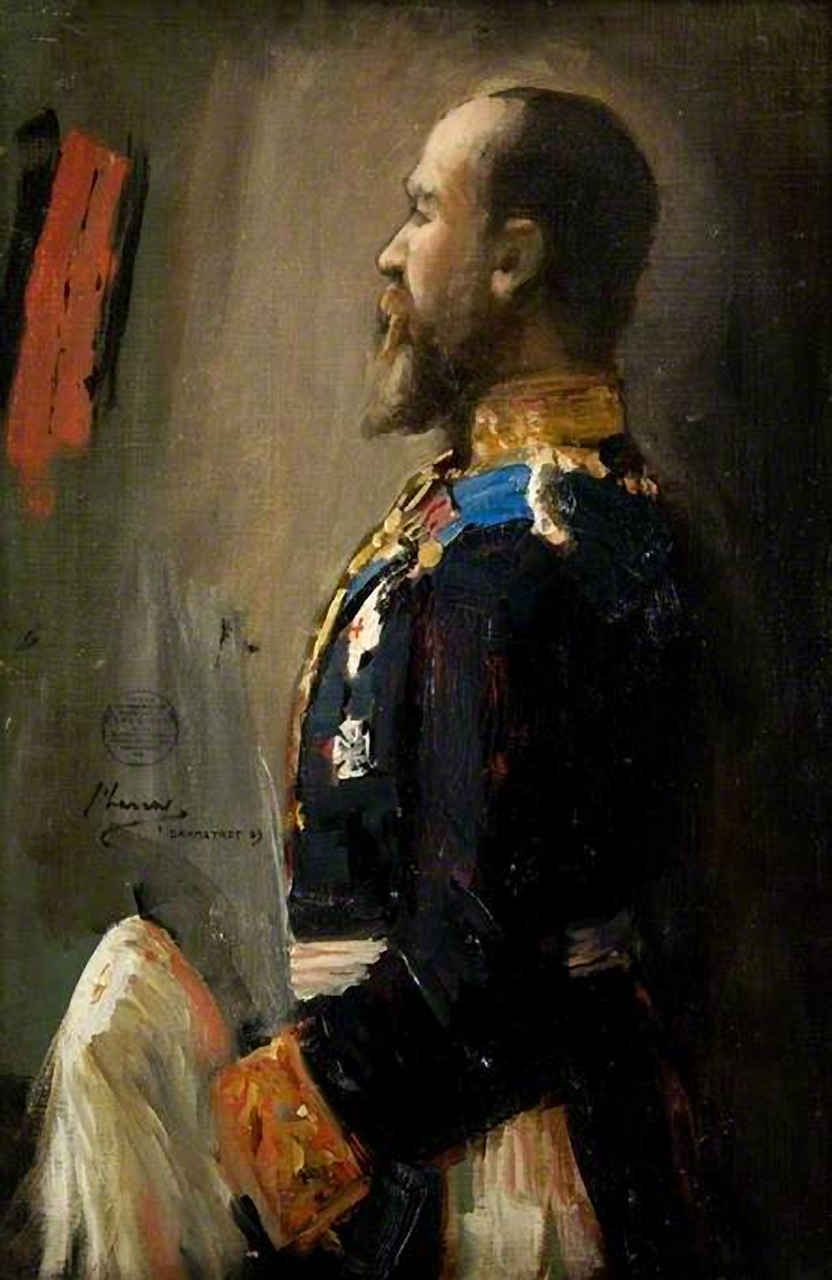 Sketch of Louis IV, the Grand Duke of Hesse from 1877 to 1892.